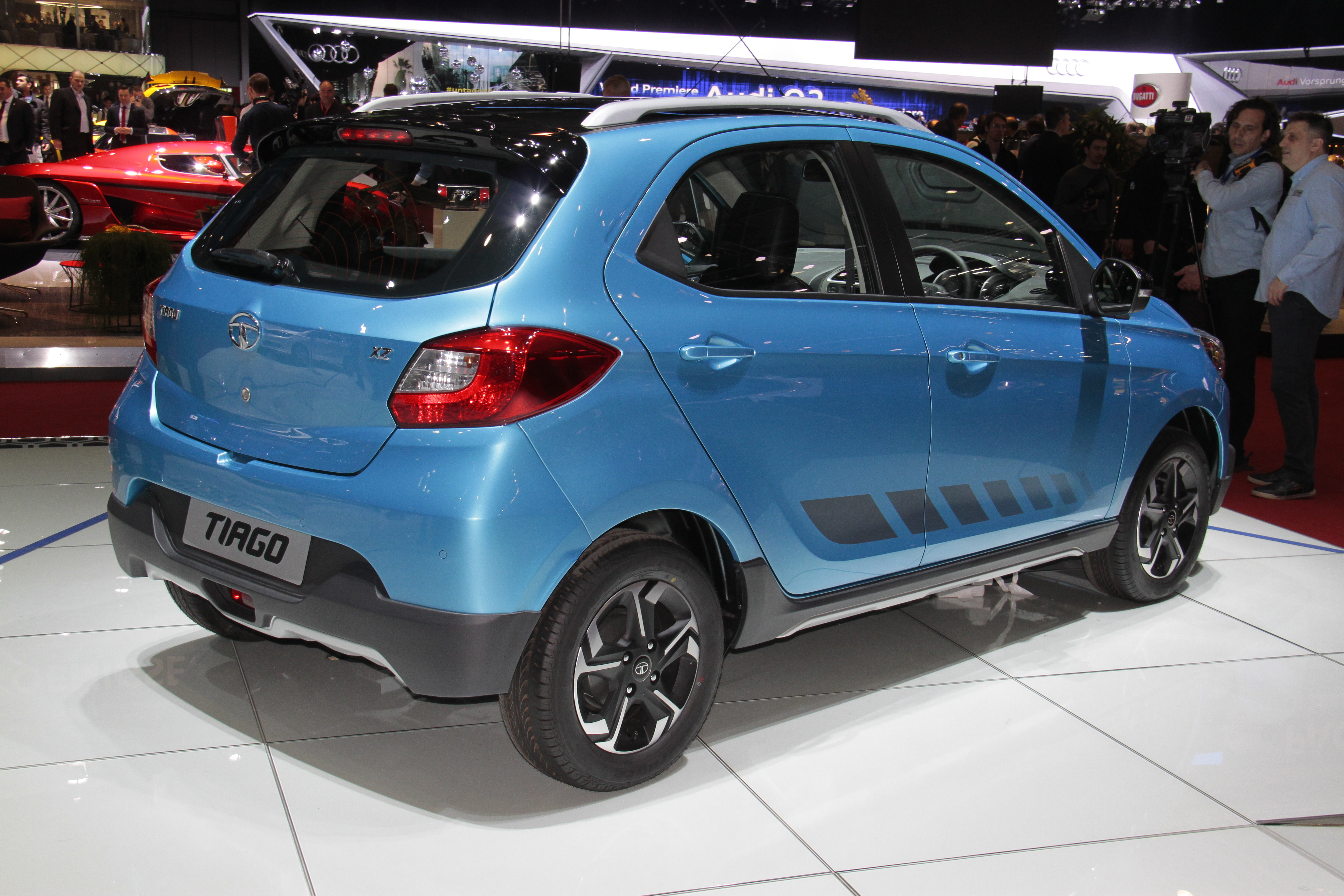 Tata Tiago at the 2016 Geneva Motor Show